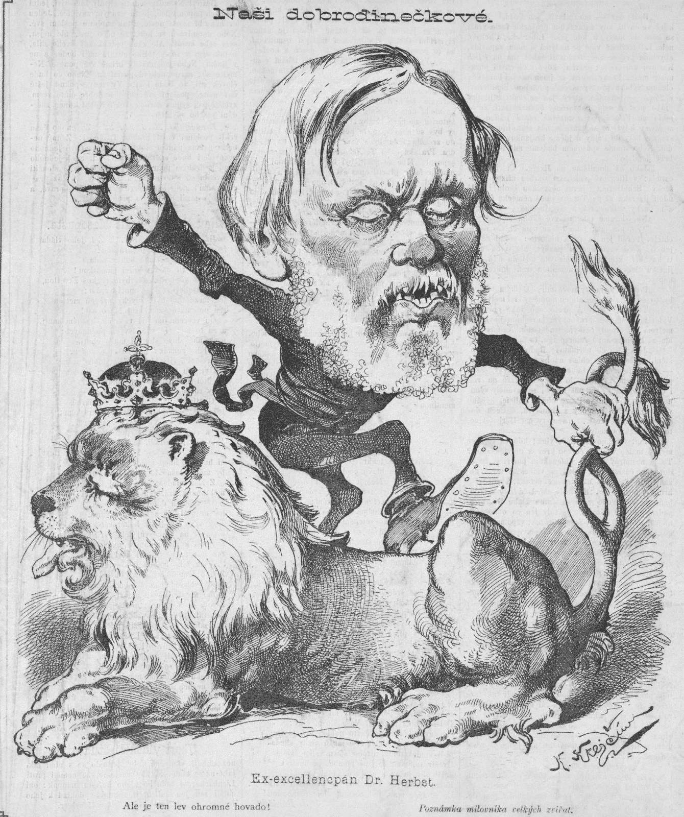 Cartoon of Eduard Herbst (1820 - 1892), Austrian politician - speaker of ethnic Germans in Bohemian assembly. He is shown as blindly crossing over a Bohemian (Czech) lion; the heading says sarcastically "Our benefactors" (Naši dobrodinečkové) and the bottom caption: "The lion is a great beast! - Note from a lover of big animals.)